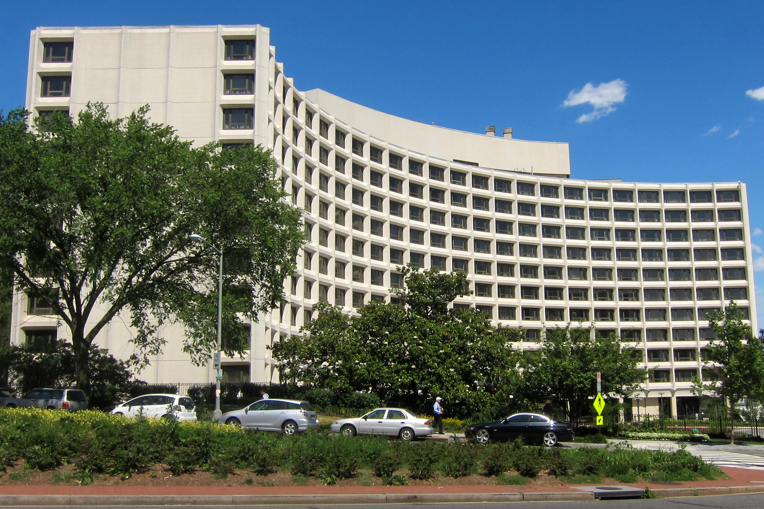 The Hilton Washington, site of the 1981 Reagan assassination attempt, located at 1919 Connecticut Avenue, N.W., in the Adams Morgan neighborhood of Washington, D.C. Designed by William B. Tabler and constructed between 1962–1965, the hotel is an example of brutalist architecture.